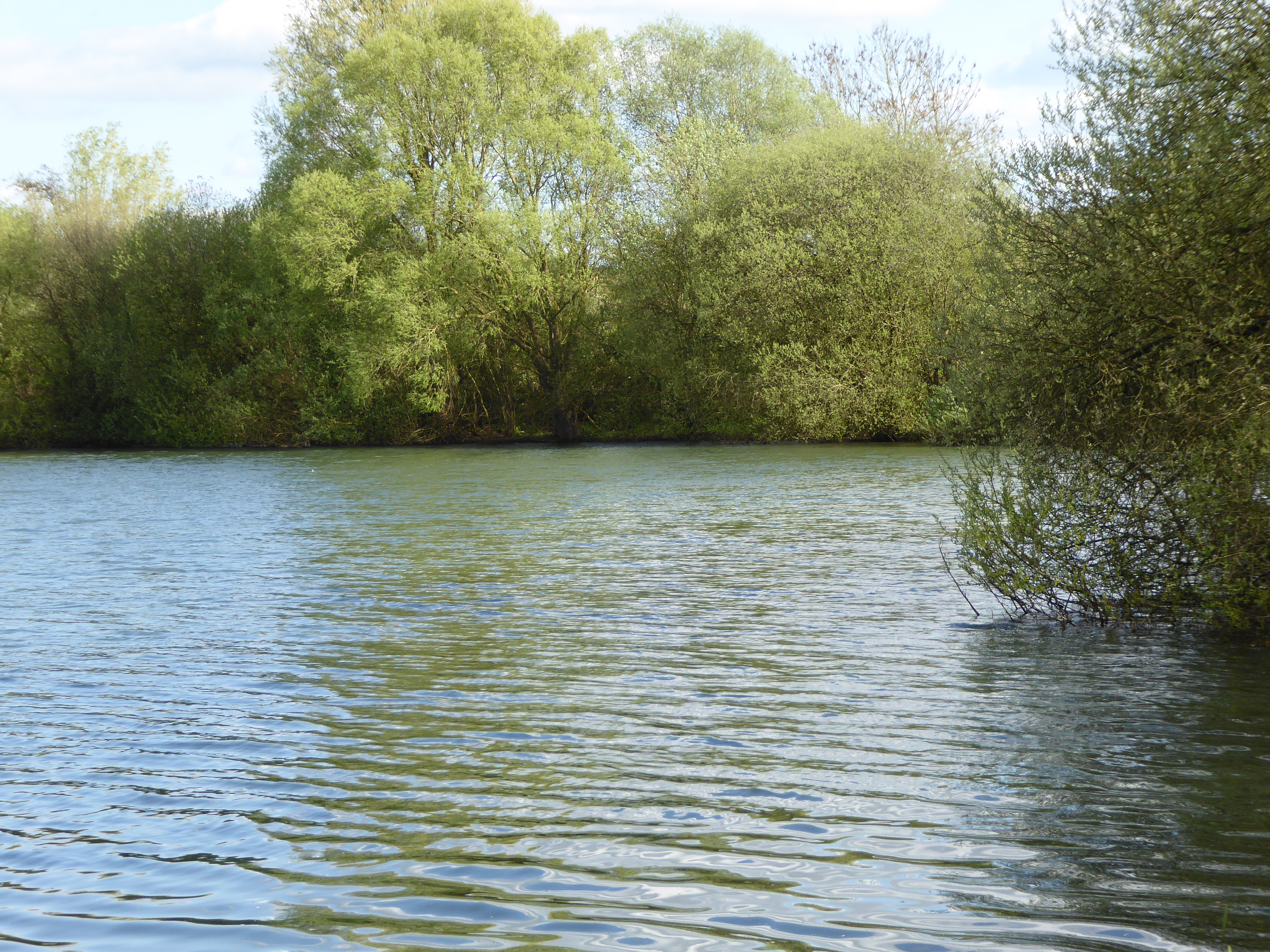 Kinewell Lake is a Local Nature Reserve west of Ringstead in Northamptonshire.